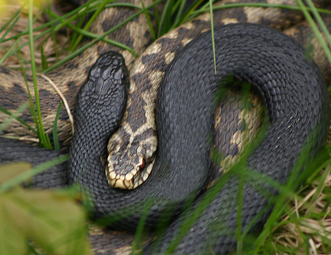 Two color variations of Vipera berus in Copenhagen Zoo.